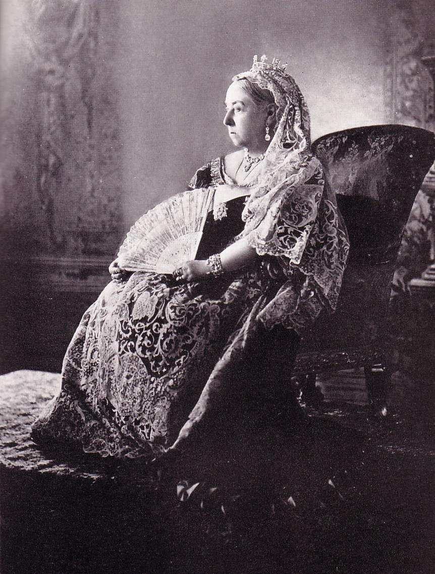 Queen Victoria photographed for her Diamond jubilee, 1897/W. and D. Downey/National Archives of Canada/C-019313/Copyright: Expired [1] Also at National Portrait Gallery, London x12984 [2].